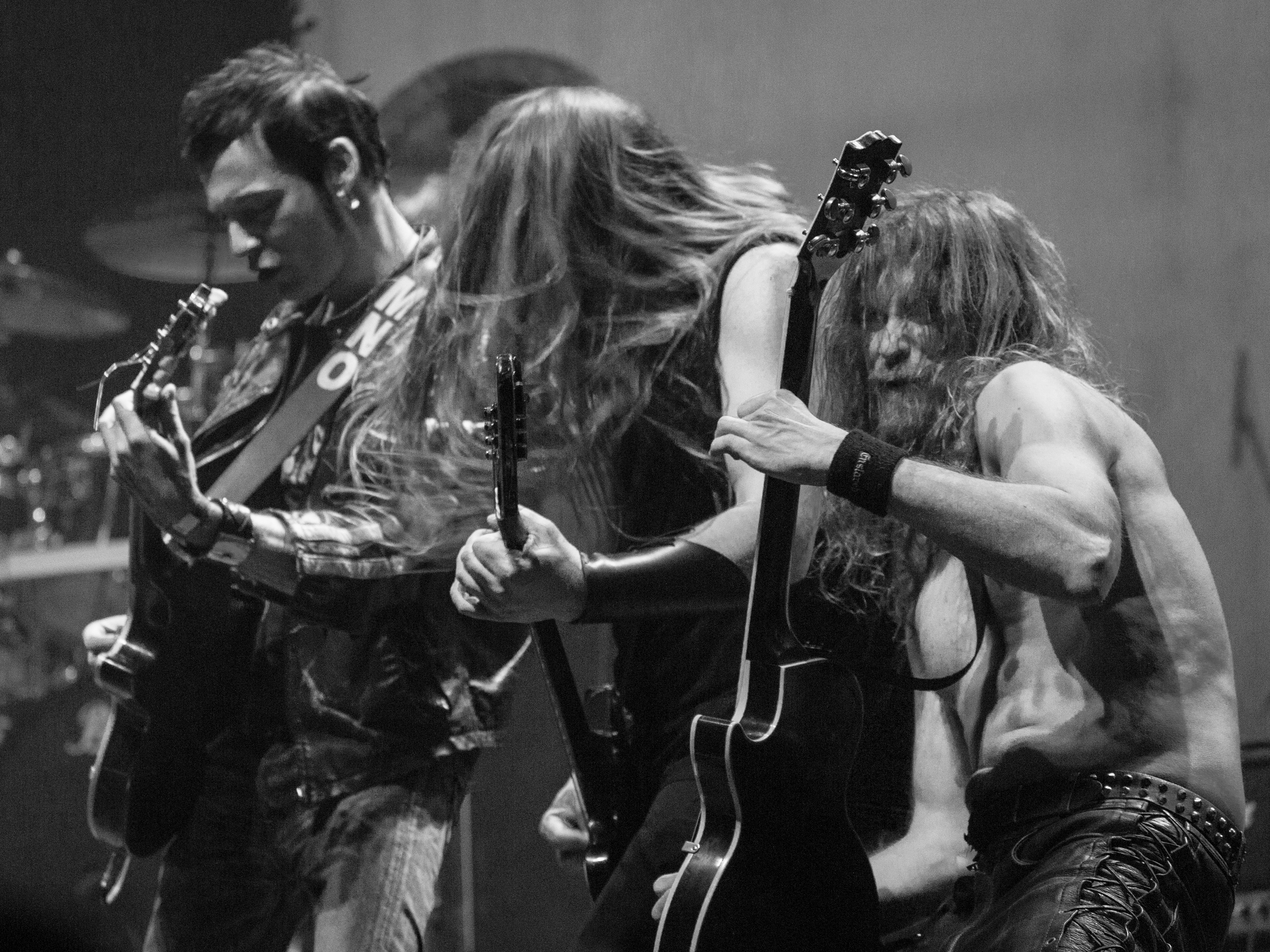 Enslaved performing at Roadburn Festival, april 2015